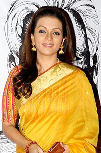 Prachi Shah graces the Khidkiyaan movie festival launch